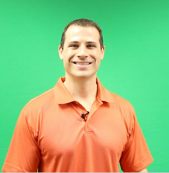 Martin Boonzaayer Prifile Picture